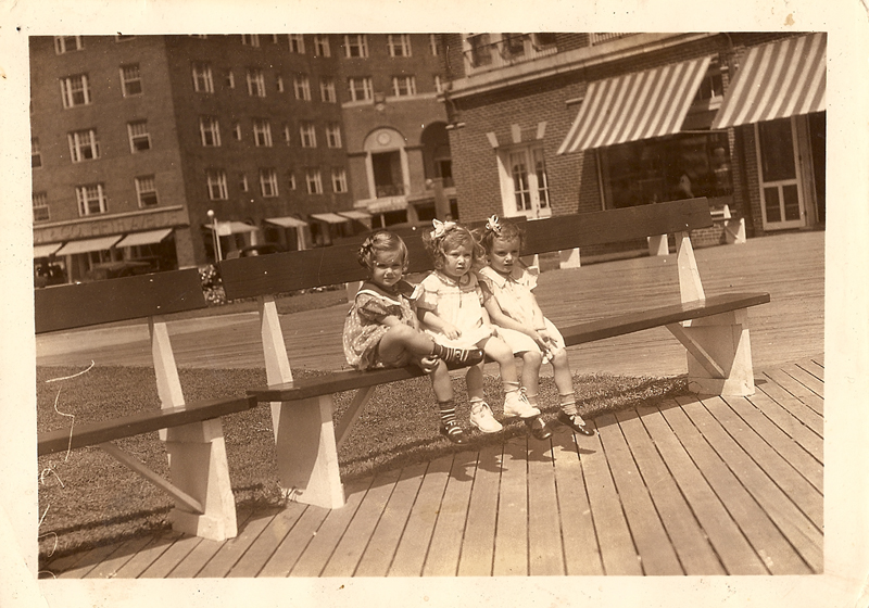 Young girls on the Asbury Park boardwalk